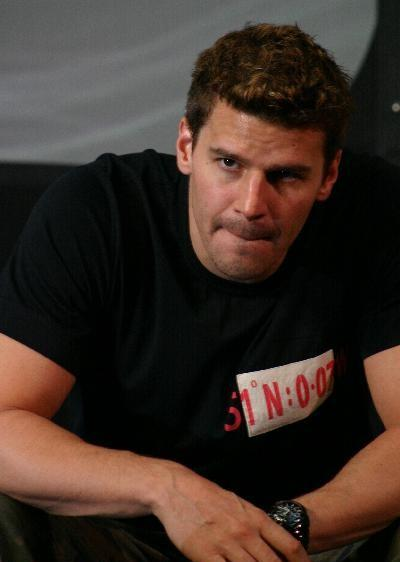 American actor David Boreanaz at a London Q&A.